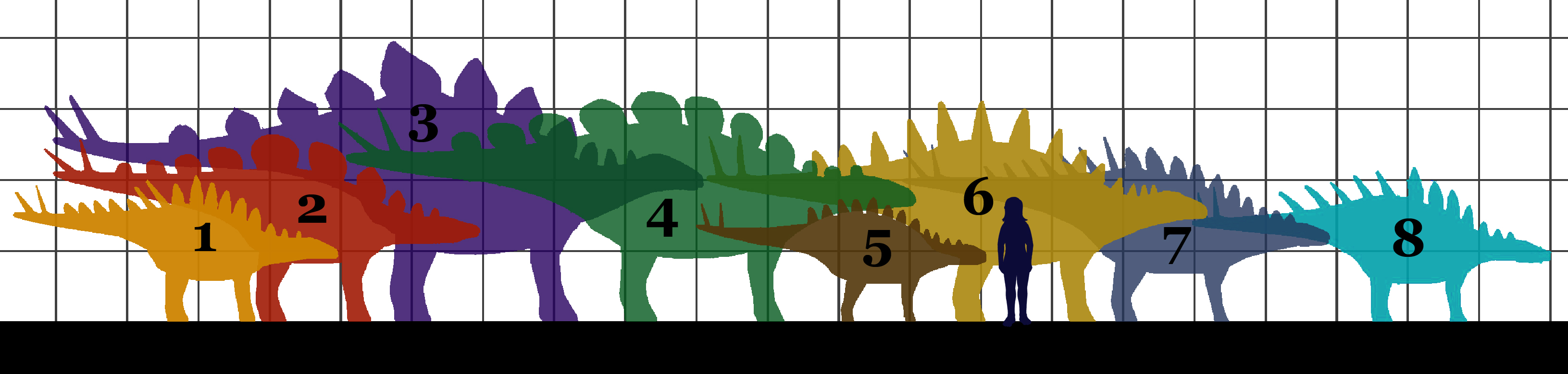 Size comparison between different genera of Stegosauria (Dinosauria, Ornithischia) and a human. 1. Huayangosaurus, 2. Hesperosaurus, 3. Stegosaurus, 4. Wuerhosaurus, 5. Gigantspinosaurus, 6. Tuojiangosaurus, 7. Lexovisaurus, 8. Kentrosaurus. The measuring squares is in metres.